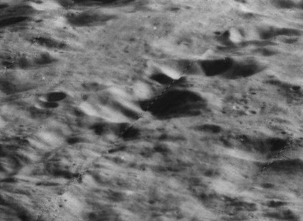 Oblique view of Konoplev, on the far side of the moon, facing west.